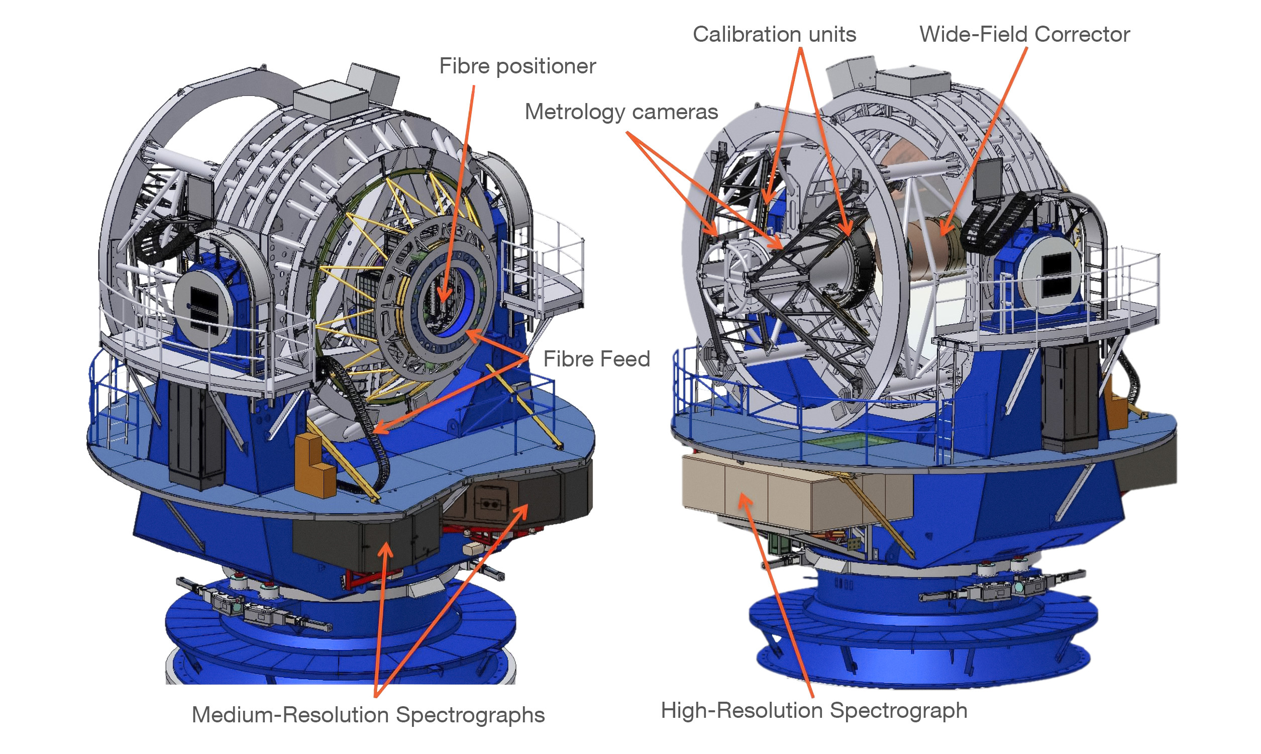 4MOST is the 4-metre Multi-Object Spectrograph Telescope